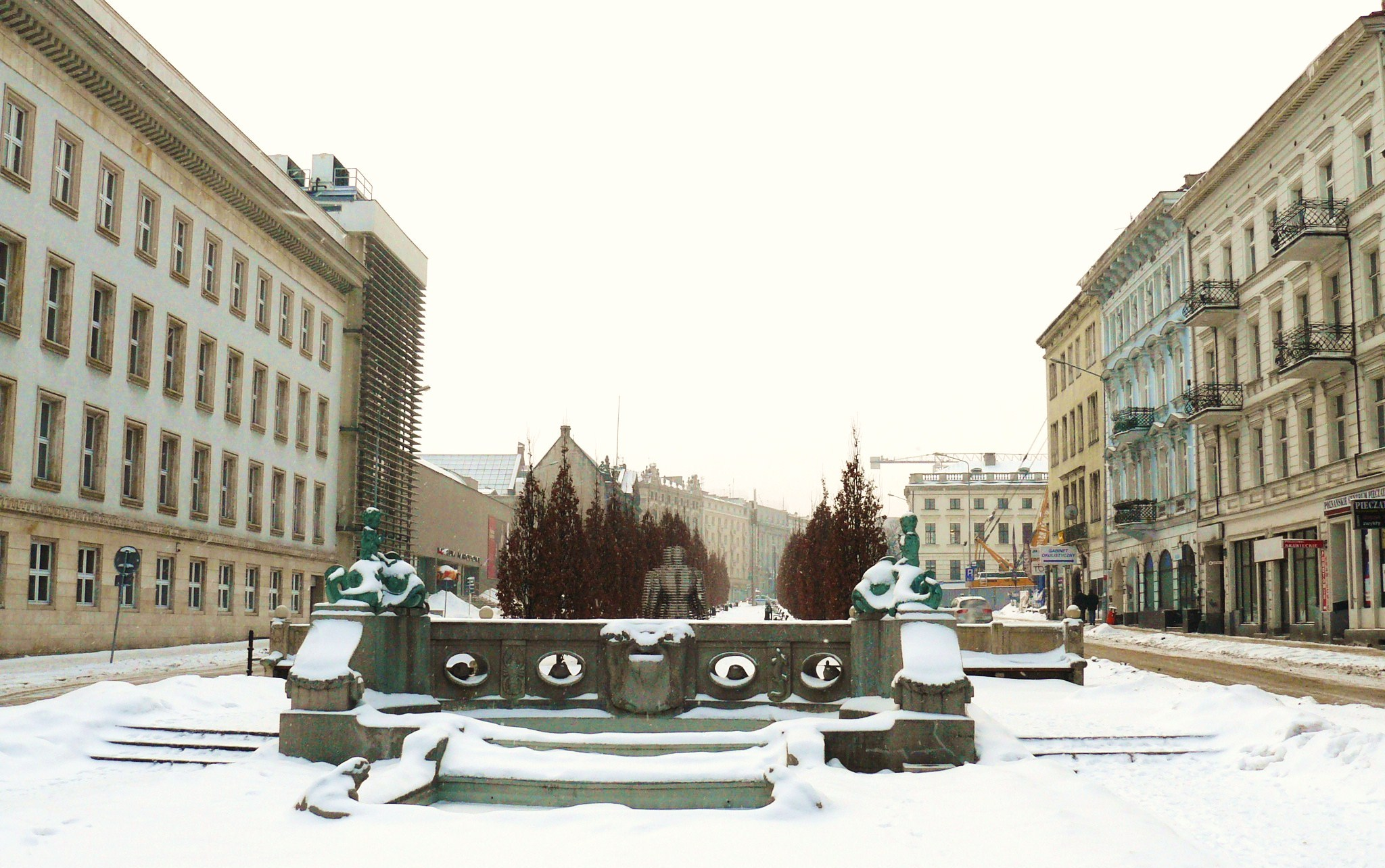 Dolphins Spring - Poznan.